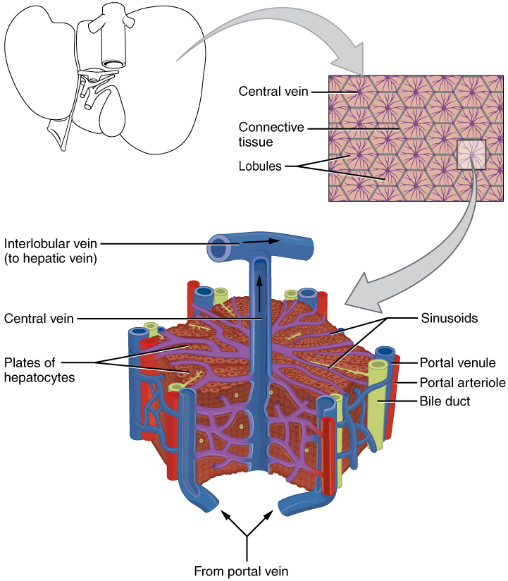 Illustration from Anatomy & Physiology, Connexions Web site. Jun 19, 2013.